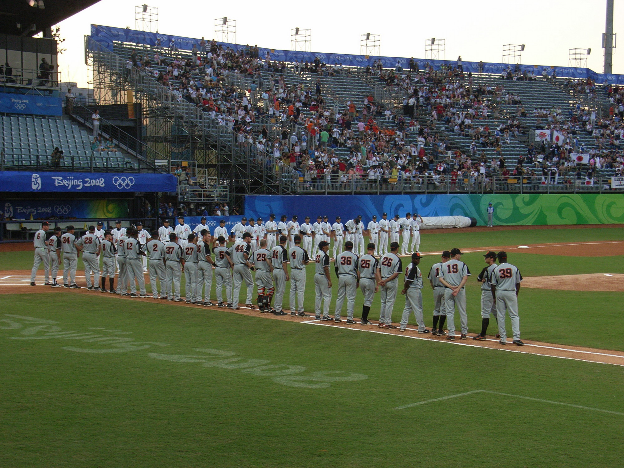 Baseball game in 2008 Olympic Games Japan Vs Holland